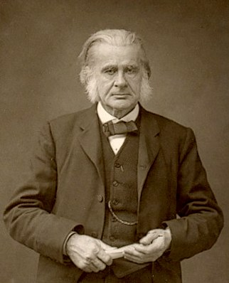 Thomas Henry Huxley (1825-1895) 1891.